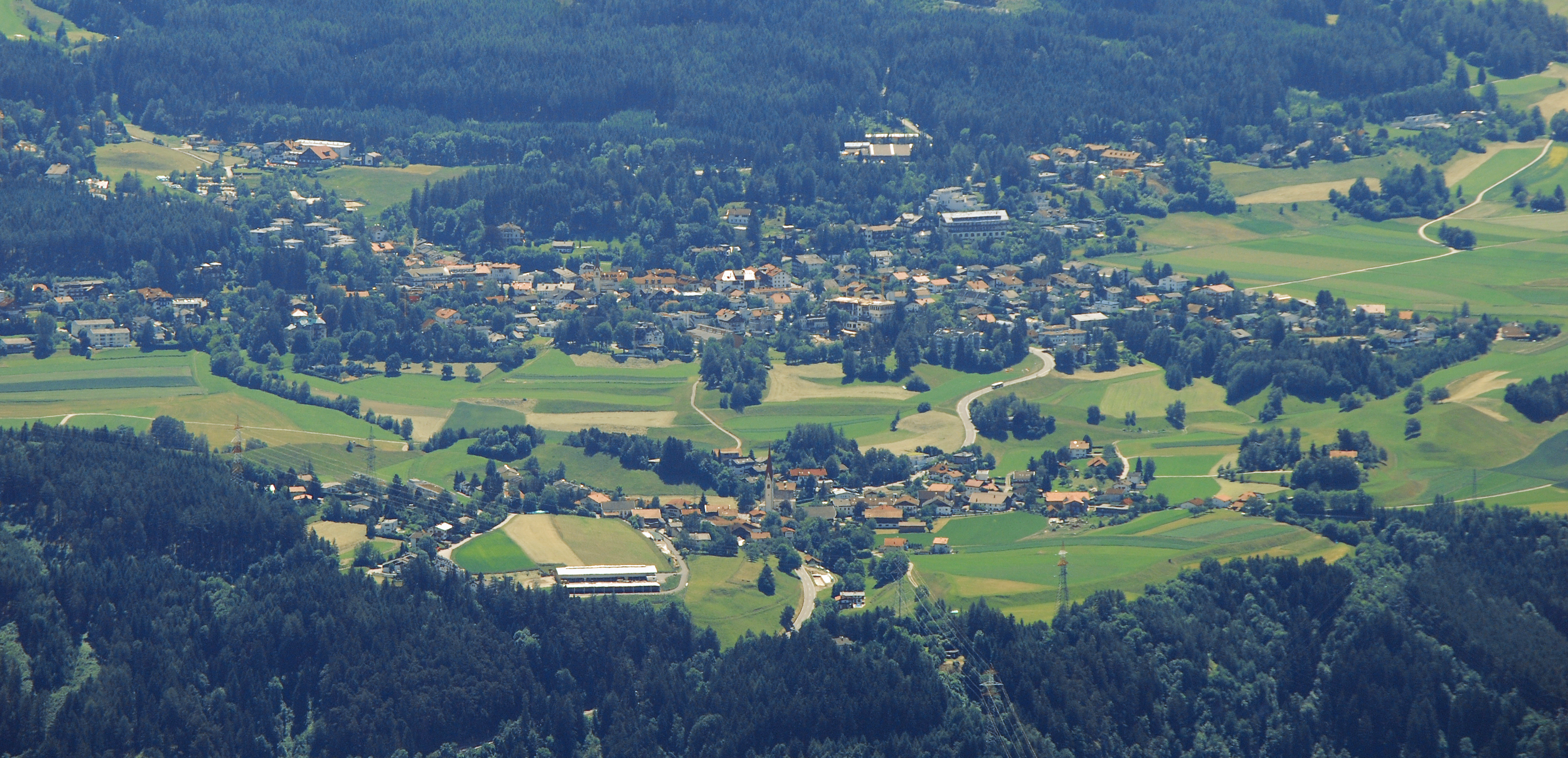 Vill and Igls from NW (Brandjoch)